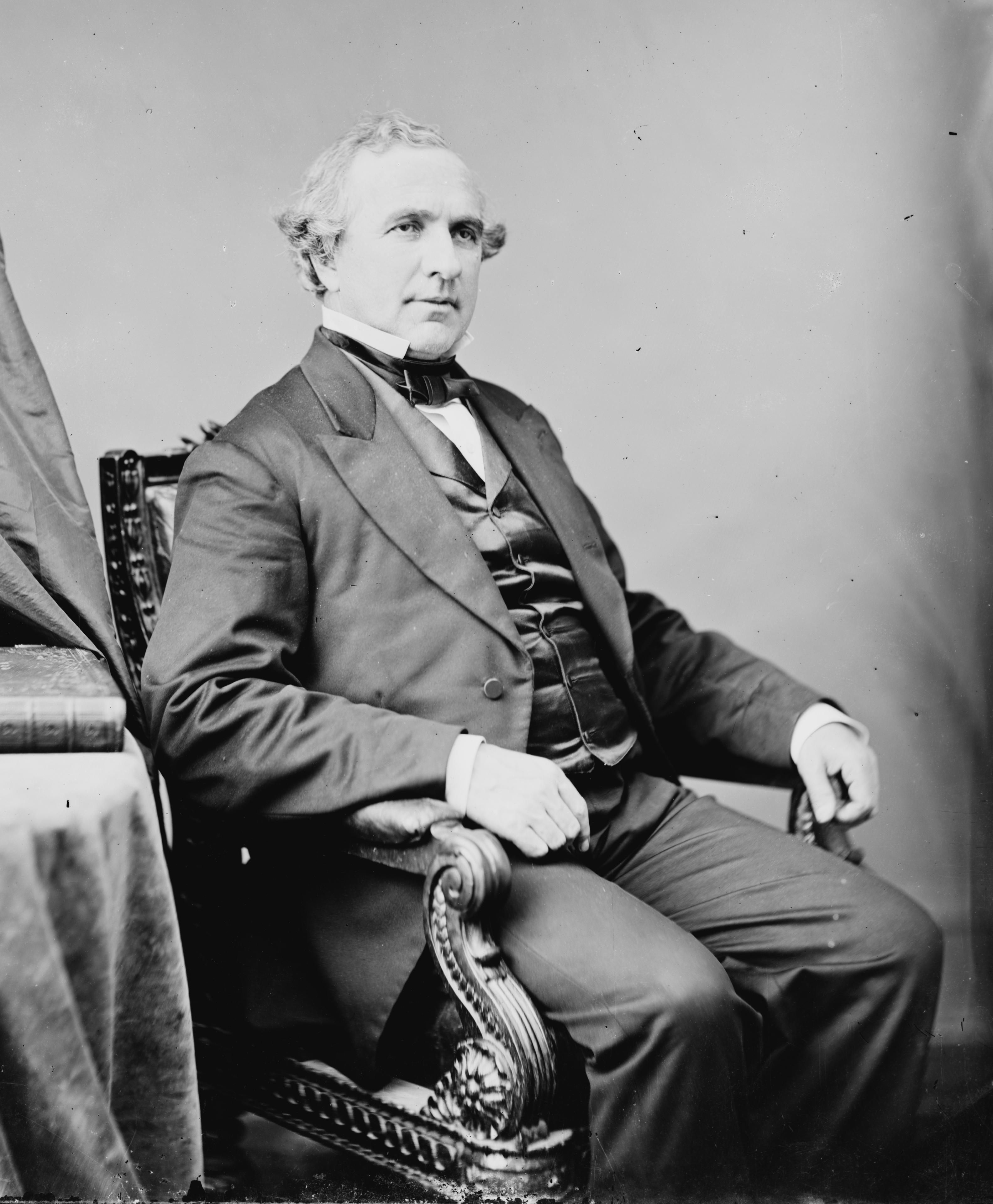 John Cessna. Library of Congress description: "Hon. John Cessna of PA"